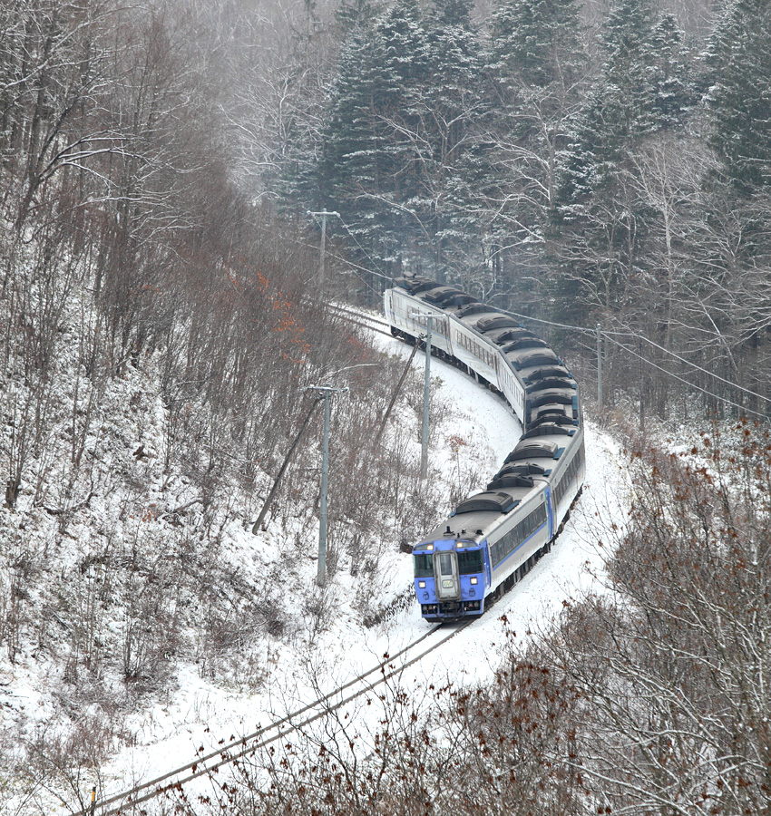 JR Hokkaido's JNR 183 series DMU, operating as the LTD. Express Okhotsk 4 ( 14D, Kanehana Stn. - Ikutahara Stn. )